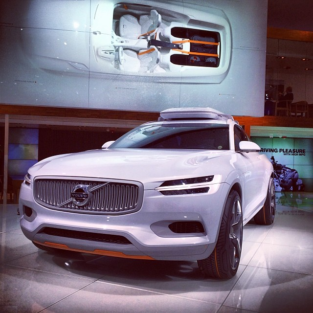 Please feel free to use this image for FREE under the Creative Commons (CC) licence. However, if you use the image, pls set a backlink to and give credit as following: "Image: ". For highres images or any other inquiries pls contact mailto: . Thanks.